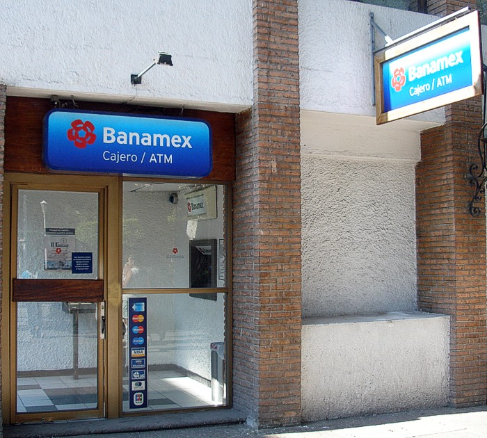 A Banamex automatic teller machine in Puerto Vallarta, Jalisco, Mexico. The distinctive blue coloration of the ATM's signs is similar to signage used by Citibank in the United States.